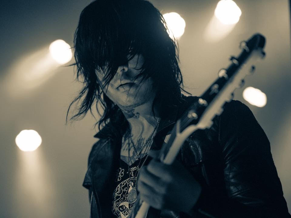 Close up of Johnny Royal